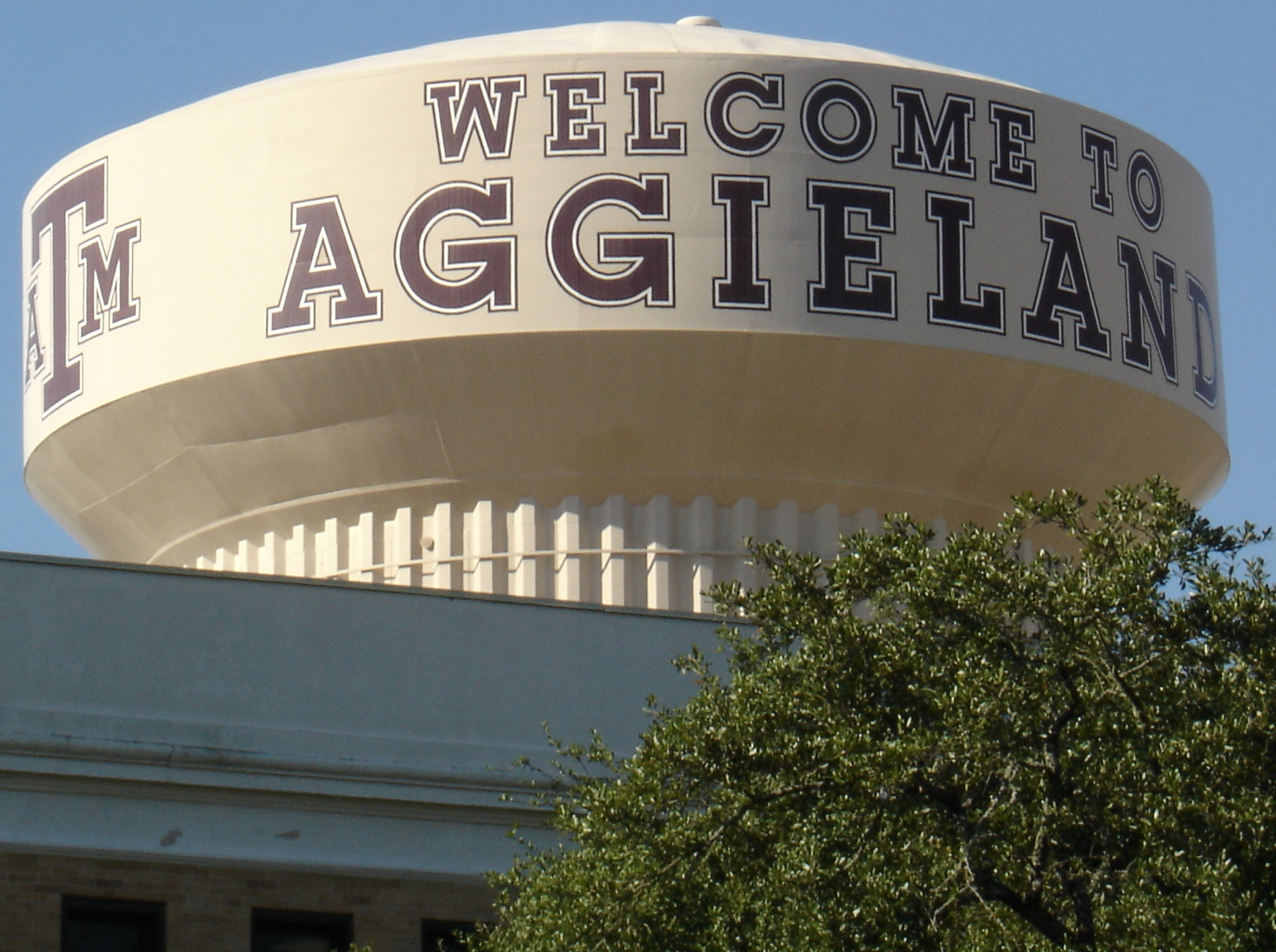 Water tower on the campus of Texas A&M University in College Station, Texas